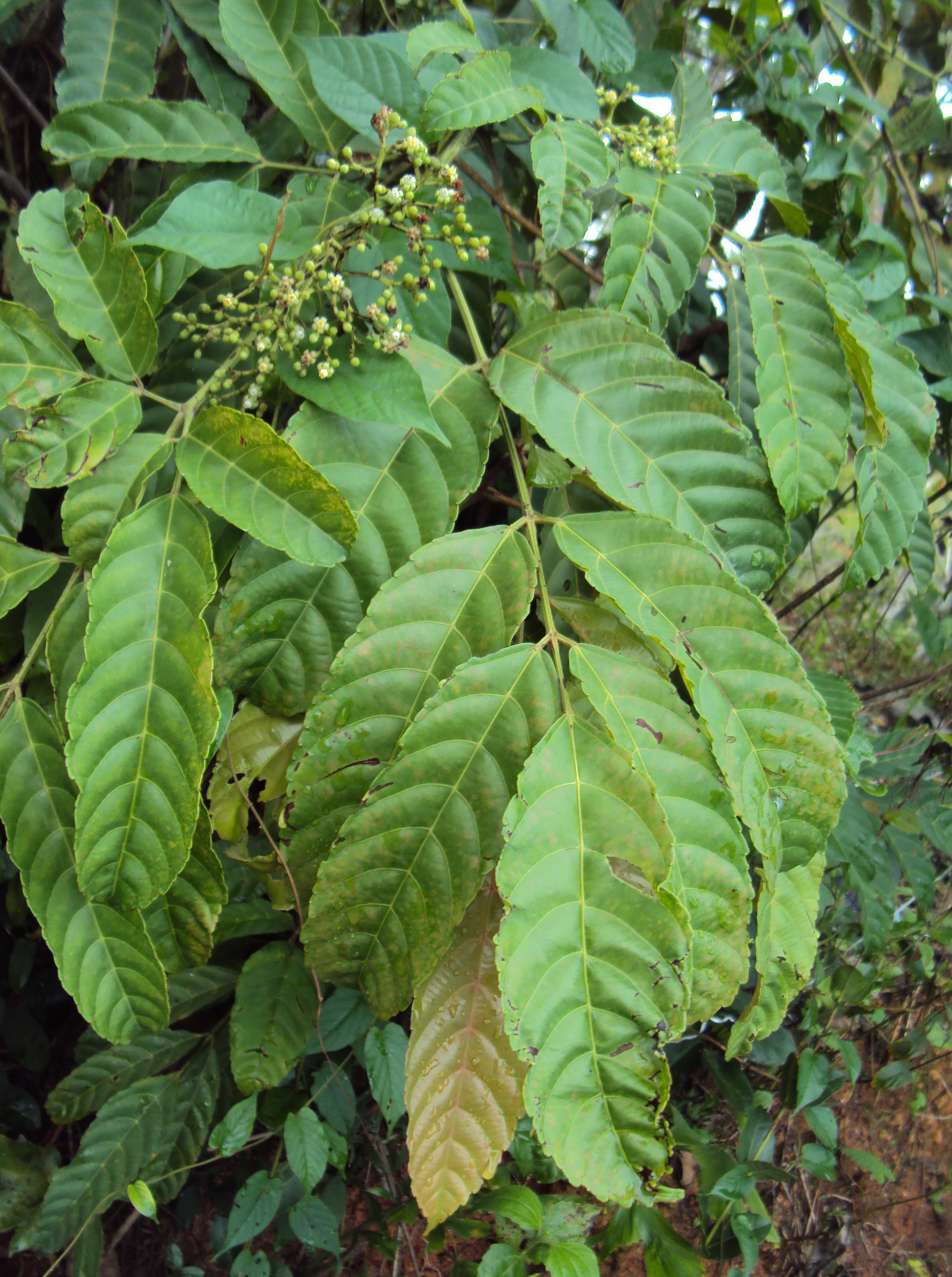 Leea indica